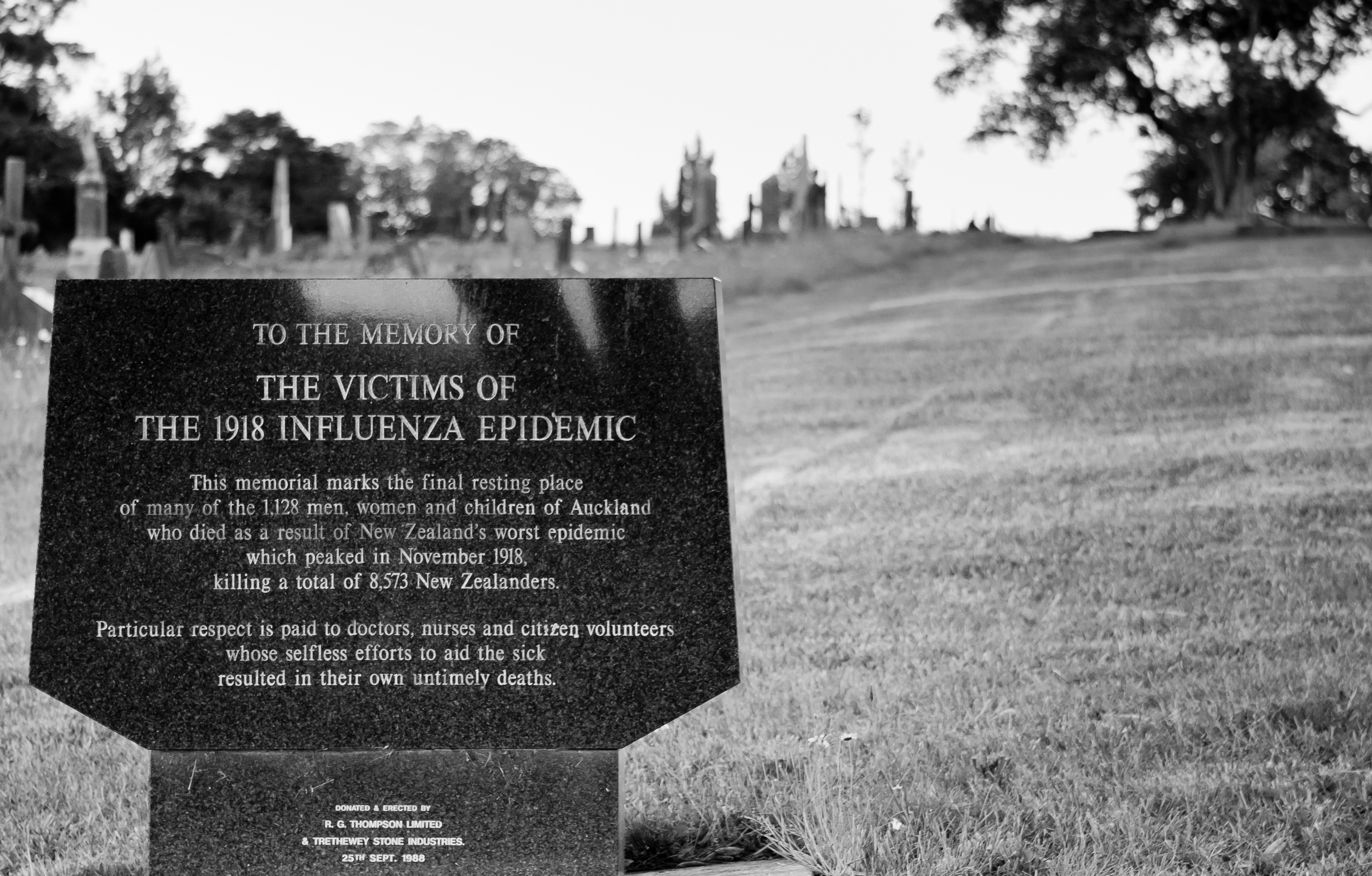 Plaque reads: This memorial marks the final resting place of many of the 1,128 men, women and children of Auckland who died as a result of New Zealand's worst epidemic which peaked in November 1918, killing a total of 8,573 New Zealanders.